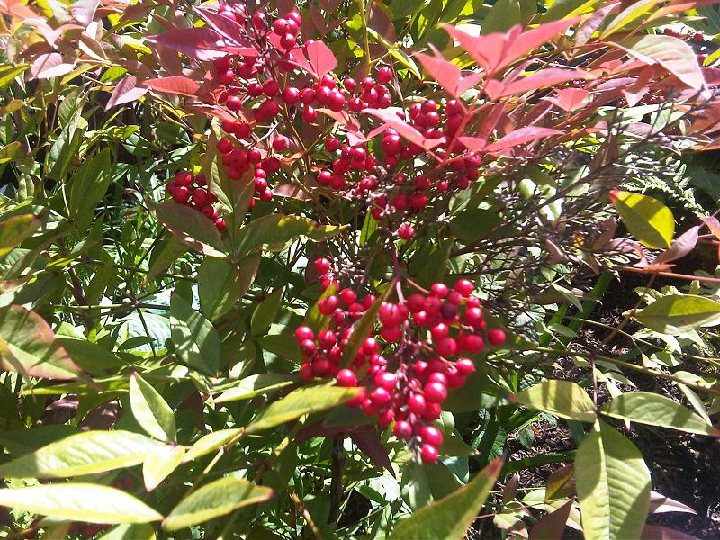 Heavenly bamboo or sacred bamboo (Nandina domestica) fruits in London, England.